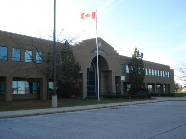 Exterior entrance of Cardinal Carter.